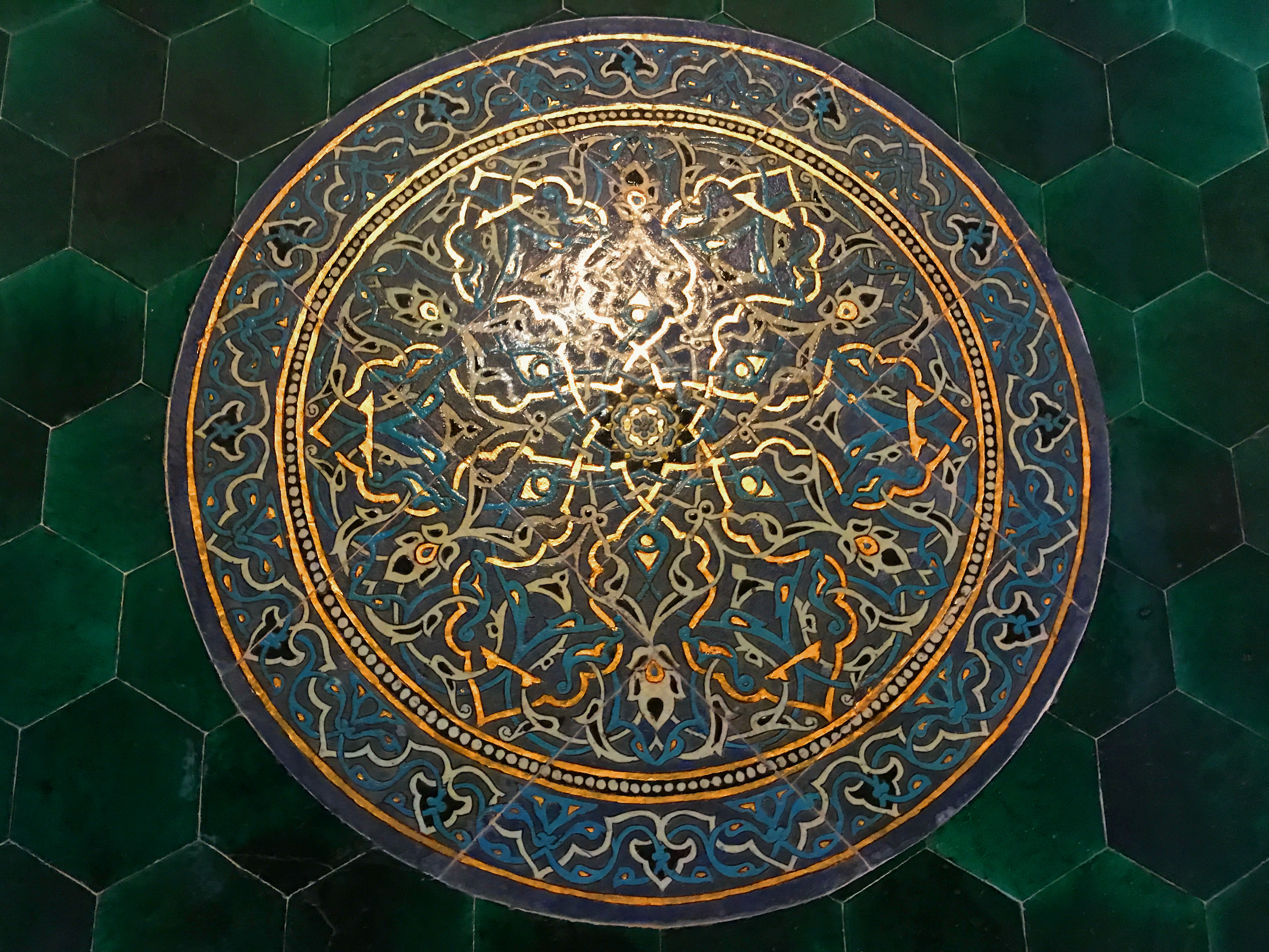 Green Mosque of Bursa, Turkey, 2017. Green Mosque (Turkish: Yeşil Camii, "Yeşil Mosque"), also known as Mosque of Sultan Mehmed I, is a part of the larger complex (a külliye) located on the east side of Bursa, Turkey, the former capital of the Ottoman Turks before they captured Constantinople in 1453. The complex consists of a mosque, türbe, madrasah, kitchen and bath.